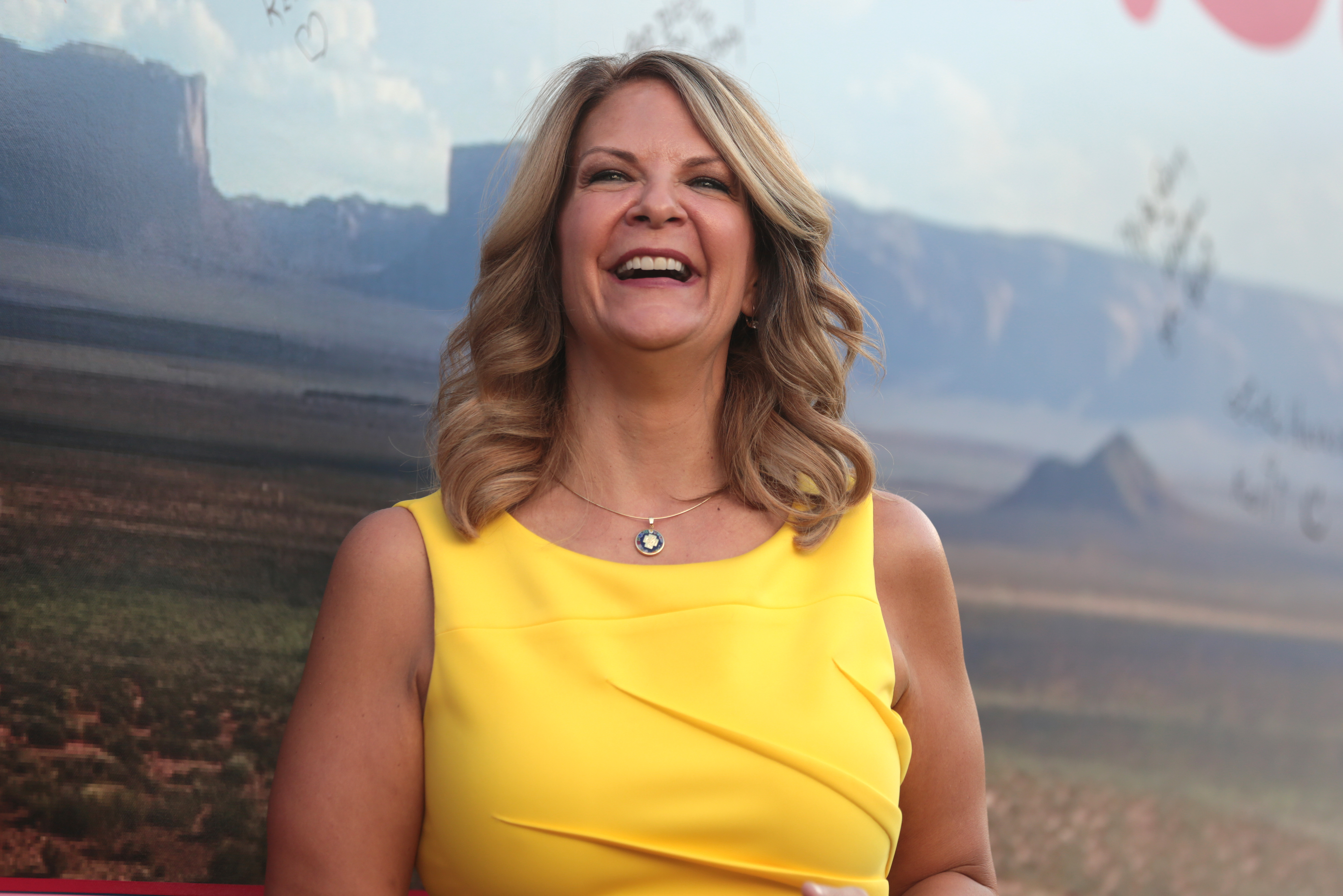 Former State Senator Kelli Ward speaking with supporters at a campaign rally with Tomi Lahren, Mike Cernovich, Brandon Tatum and Jessie Jane Duff, at the Pioneer Living History Museum in Phoenix, Arizona.